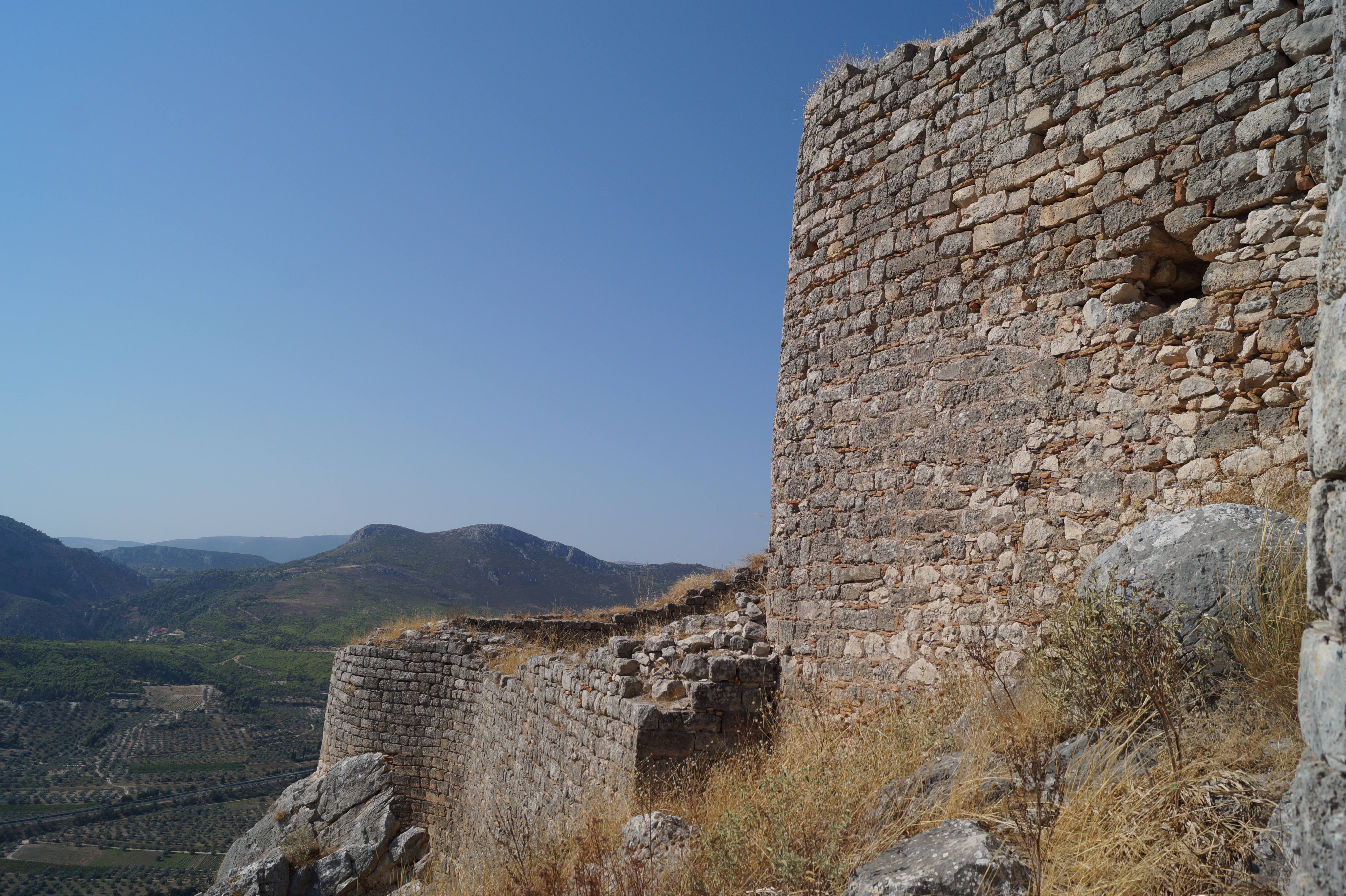 Corinth, Greece: East wall of Penteskoufi Castle.